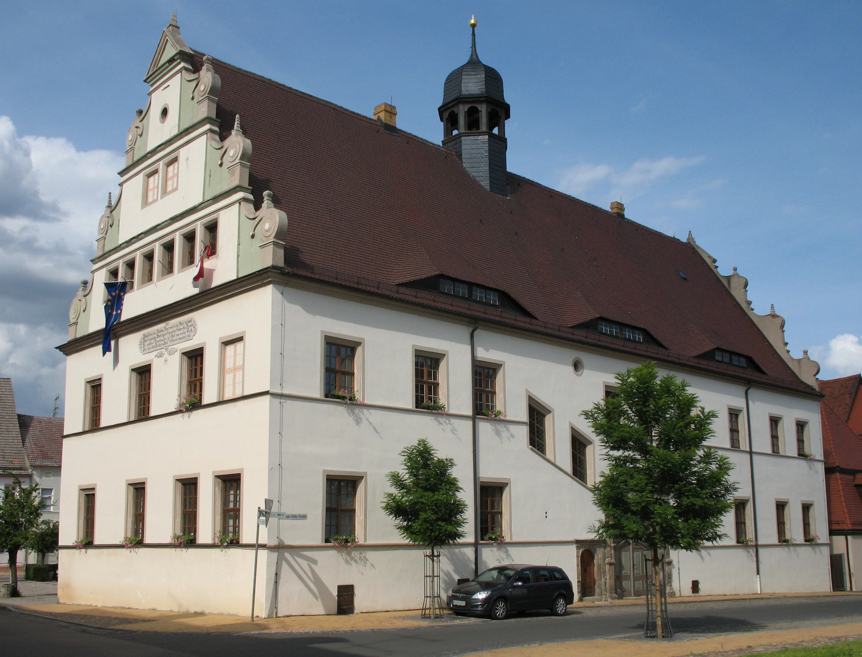 Town hall in Bad Schmiedebergg in Saxony-Anhalt, Germany